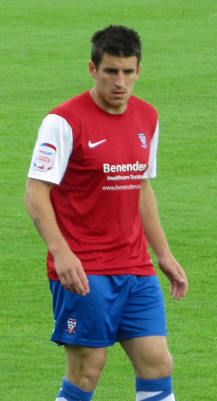 Michael Coulson playing for York City against Oldham Athletic at Bootham Crescent, York on 21 July 2012